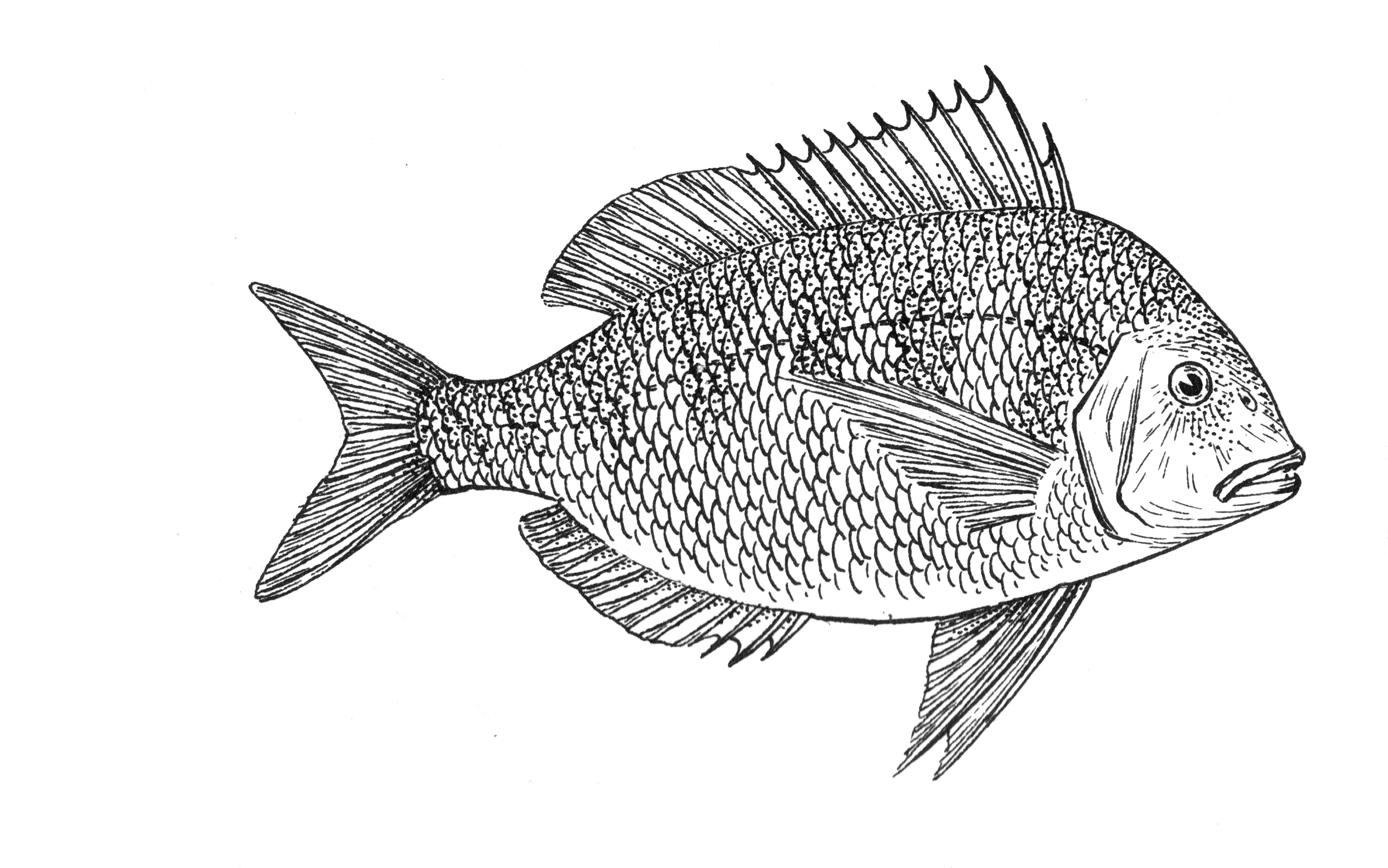 Line art drawing of scup or porgy (Stenotomus chrysops)